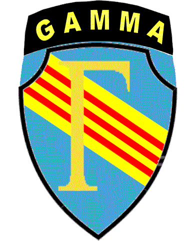 War Patch Det B57 GAMMA 5th SFGA